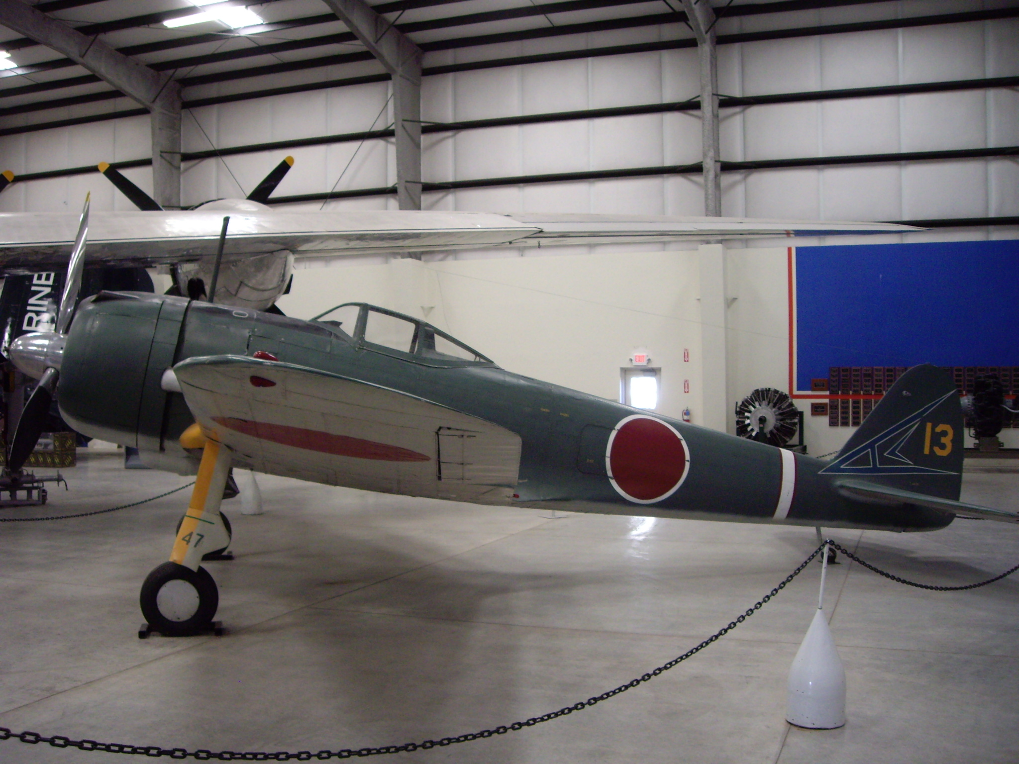 Ki-43 Nakajima airplane from World War II. A Japanese Army Air Force fighter plane active in the Pacific throughout the war. The Japanese name for this aircraft was "Peregrine Falcon" and the Allied code name was "Oscar". Photo taken at the Pima Air and Space Museum, Tucson, AZ.